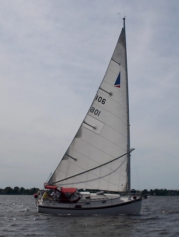 Nonsuch 26 sailboat on Lac Deschênes, part of the Ottawa River, Ottawa, Ontario, Canada